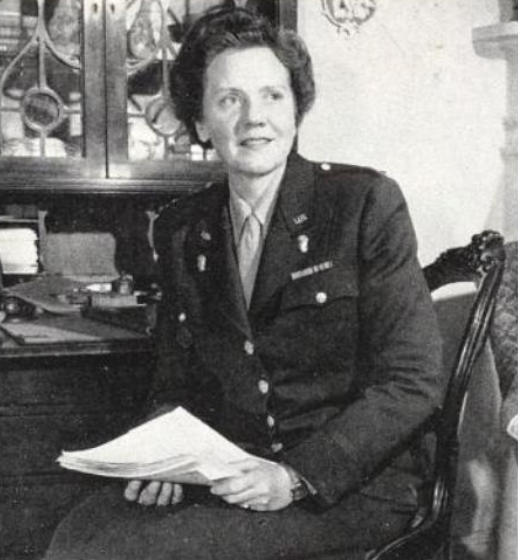 Original caption: Captain Frances Marquis, WAC, on her return from service in North Africa